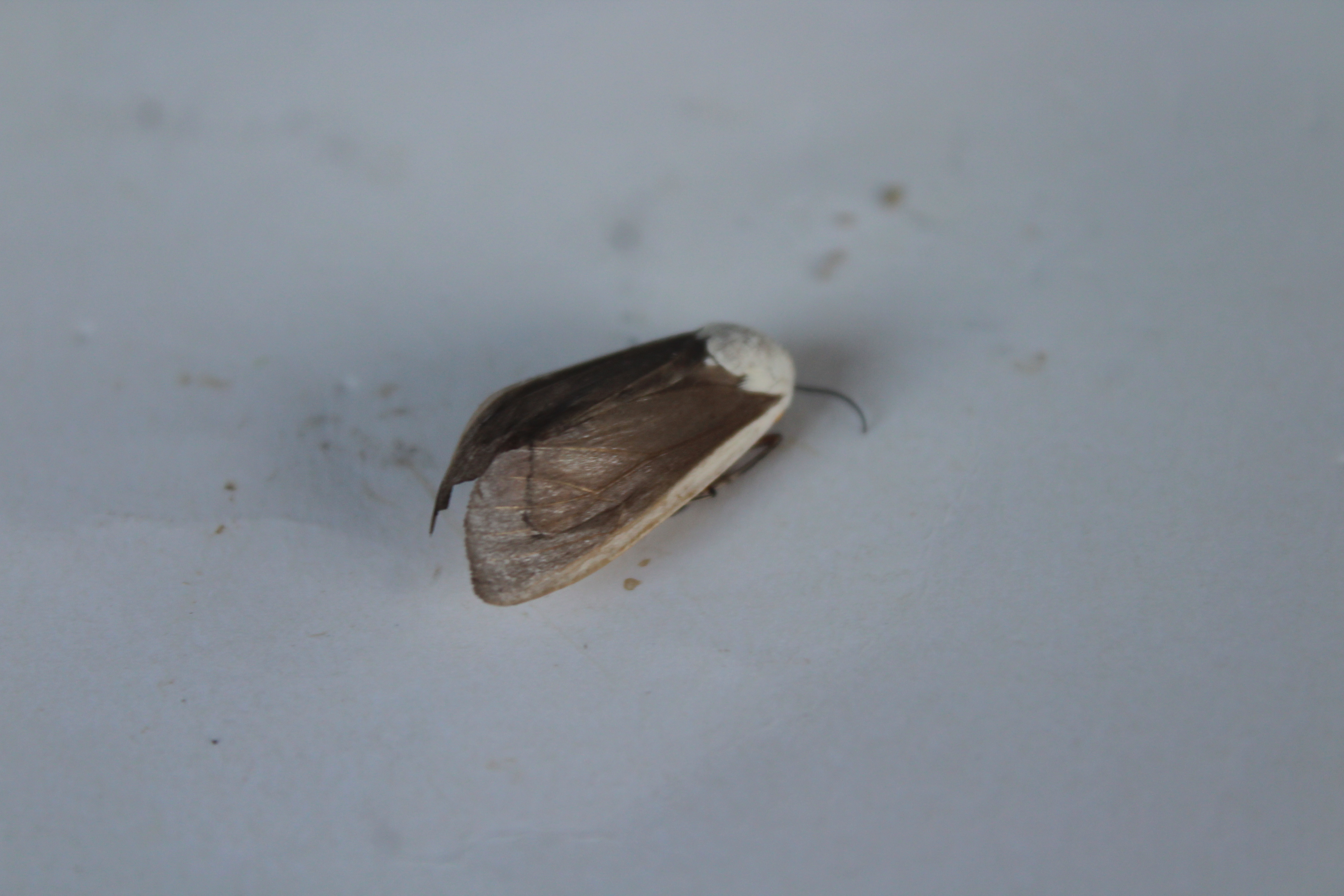 moth